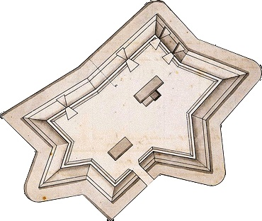 Drawing of the plan of the Fort of Carvalha, Lisbon District, Portugal.